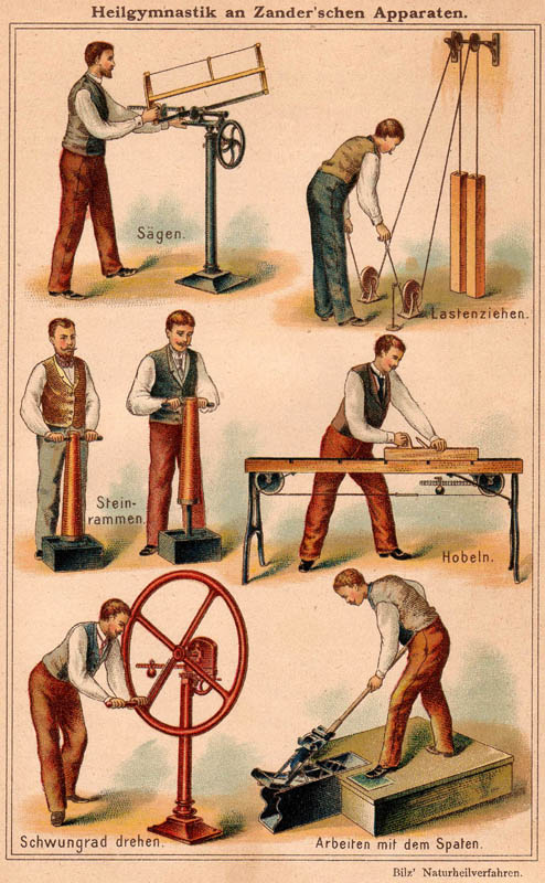 19th century illustration of remedial exercises